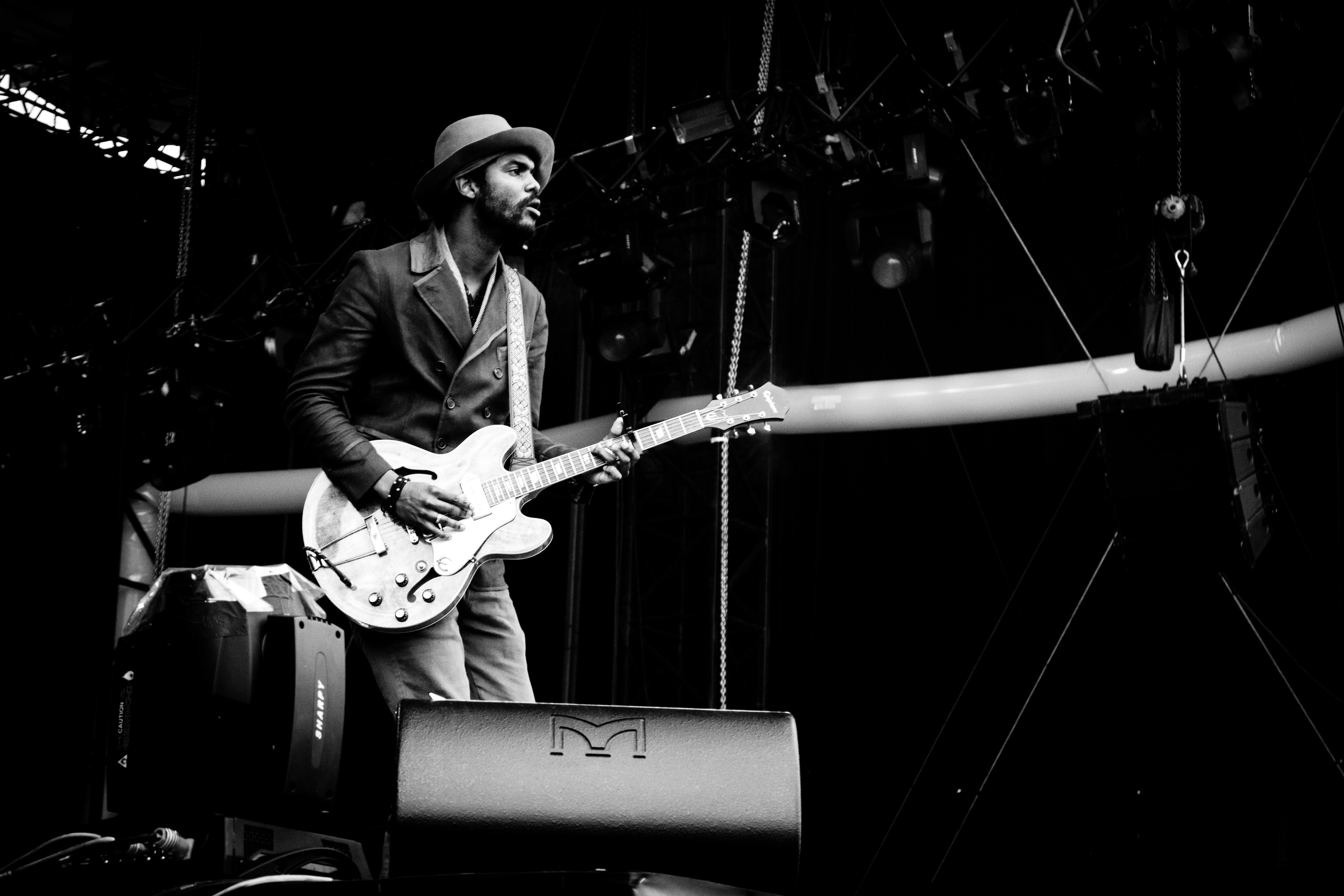 Follow me on facebook Twitter : @didyPhotography All the photographies I've made are now under CC0 (Creative Commons Zero) CC0 - learn more To the extent possible under law, Eddy BERTHIER has waived all copyright and related or neighboring rights to Gary Clark Jr @ Eurockéennes de Belfort 2013. This work is published from: France.